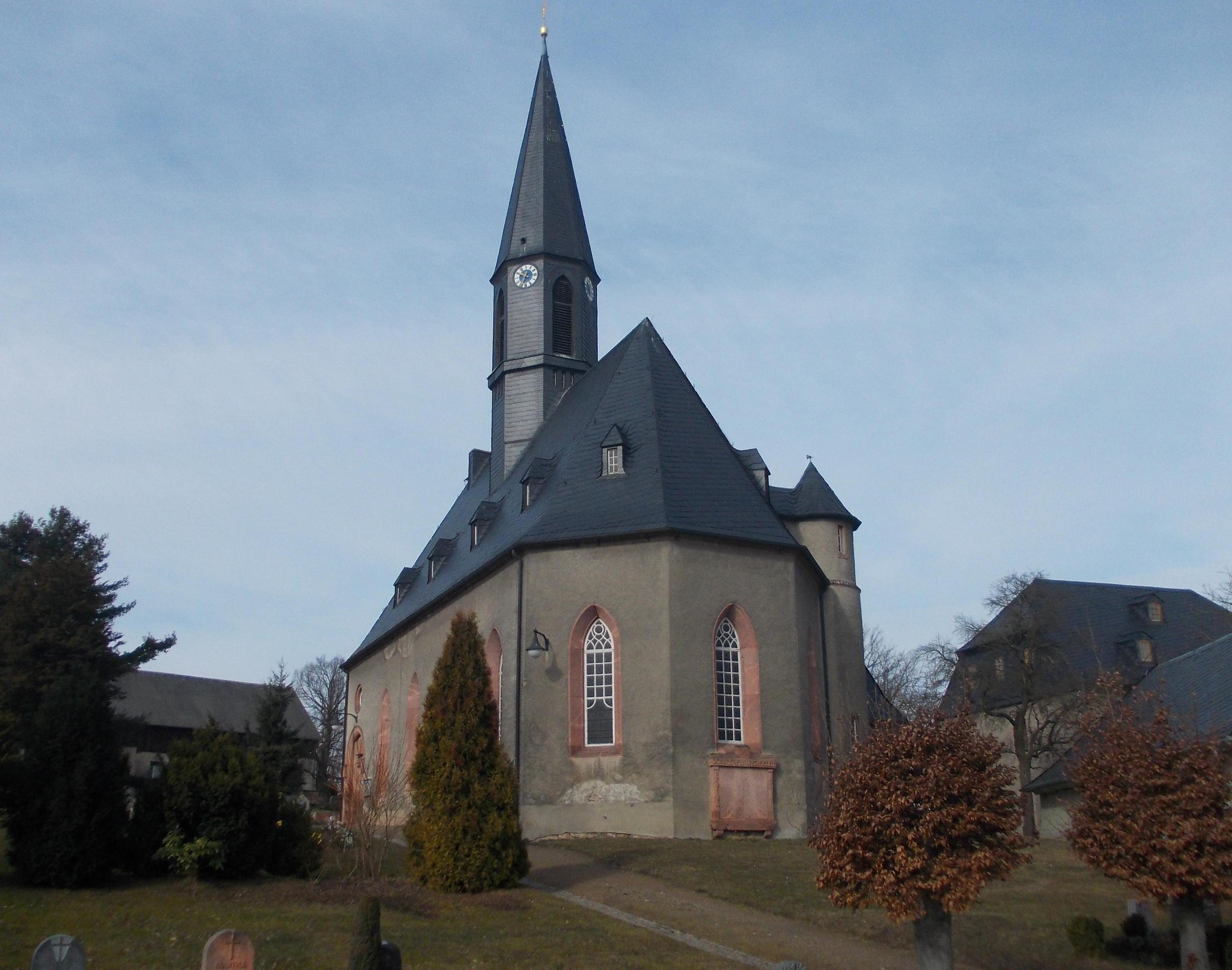 Christ Church in Niederfrohna (Zwickau district, Saxony)